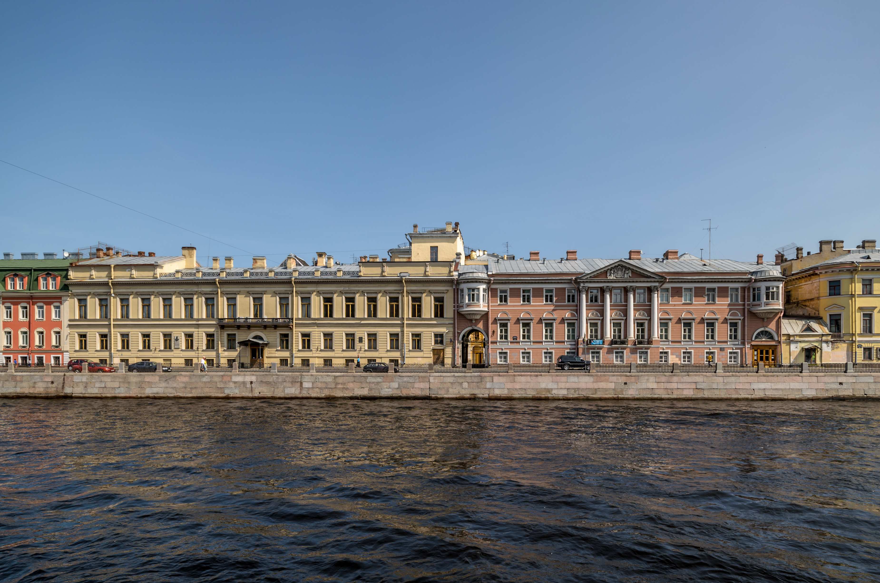 Fontanka Embankment in Saint Petersburg